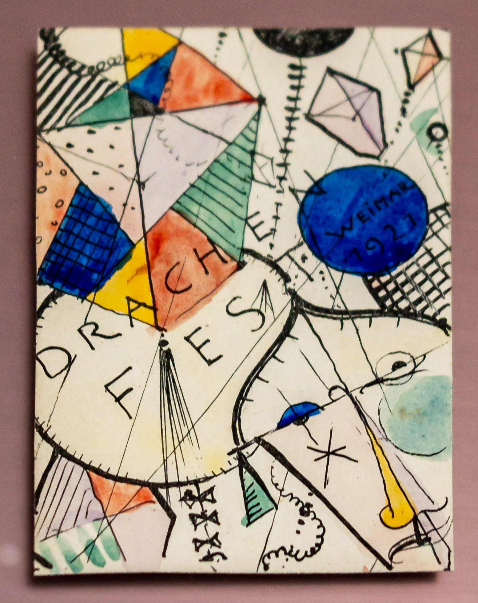 Invitation to the Kite Festival